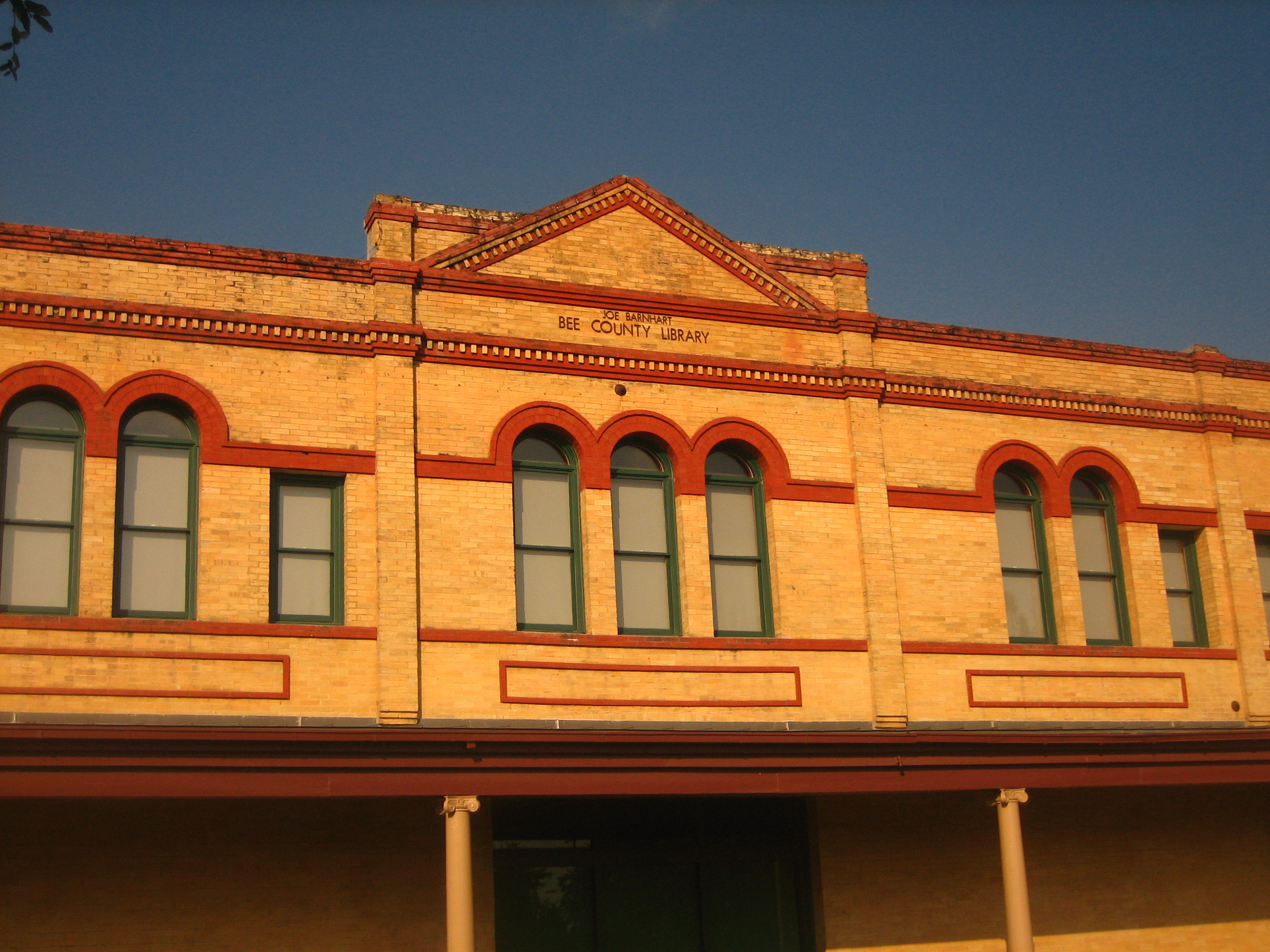 Joe Barnhart Bee County Library, Beeville, Texas. Corner of N.E. Washington St. (U.S. 181 Business) and W. Corpus Christi St.